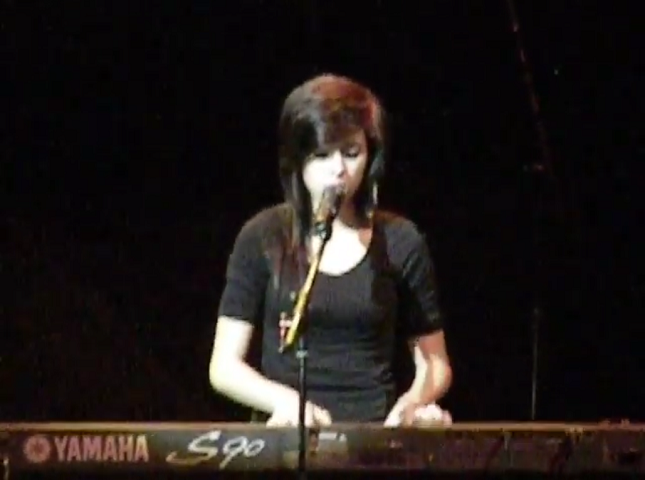 Grimmie performing in Chicago in 2011